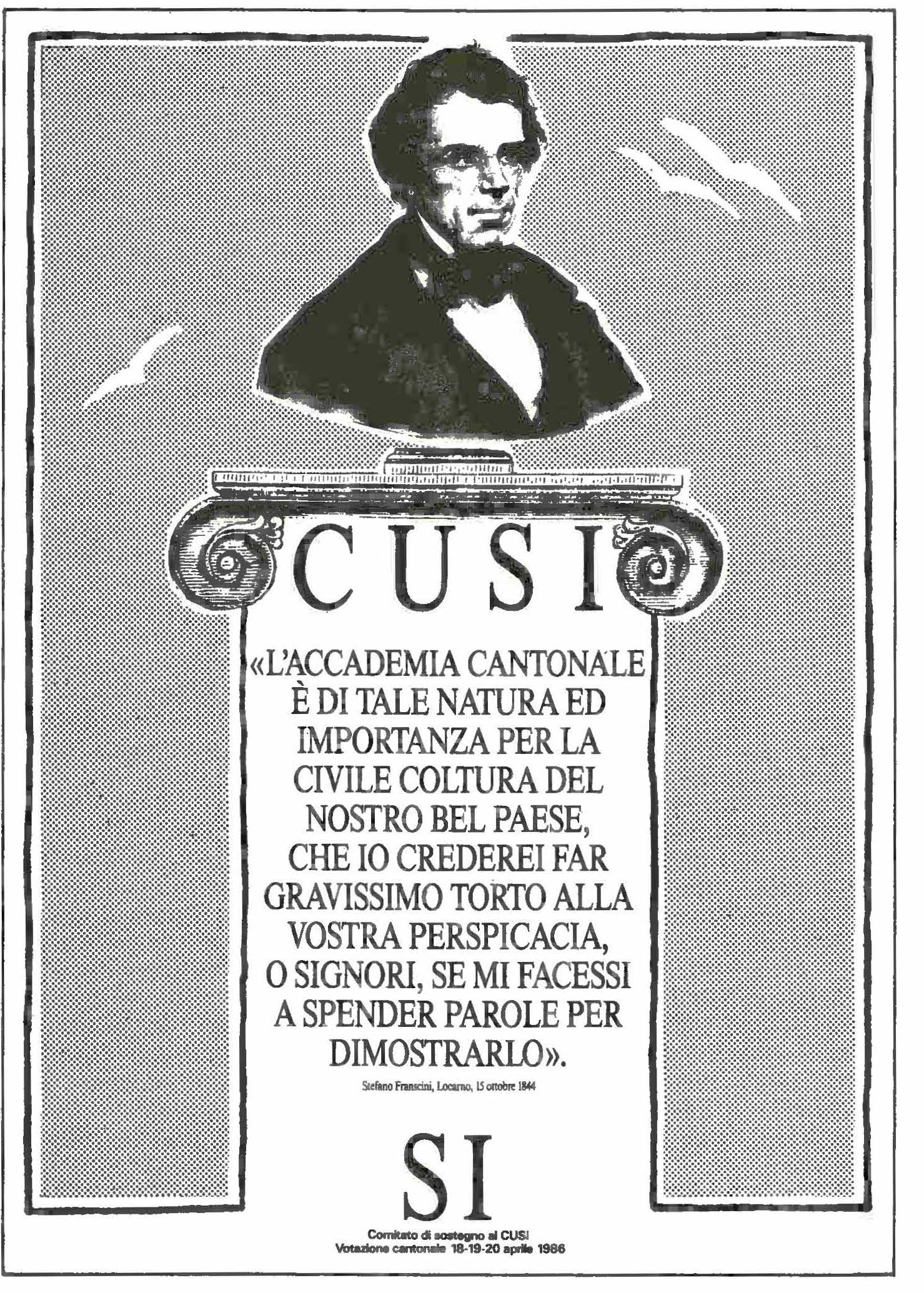 Campaign poster in support of the Cantonal referendum on CUSI (April 18-19-20, 1986) quoting the words of Federal Councillor Stefano Franscini, who a centruy earlier (October 15, 1844) wrote about the importance of a higher education institution in the Canton Ticino.